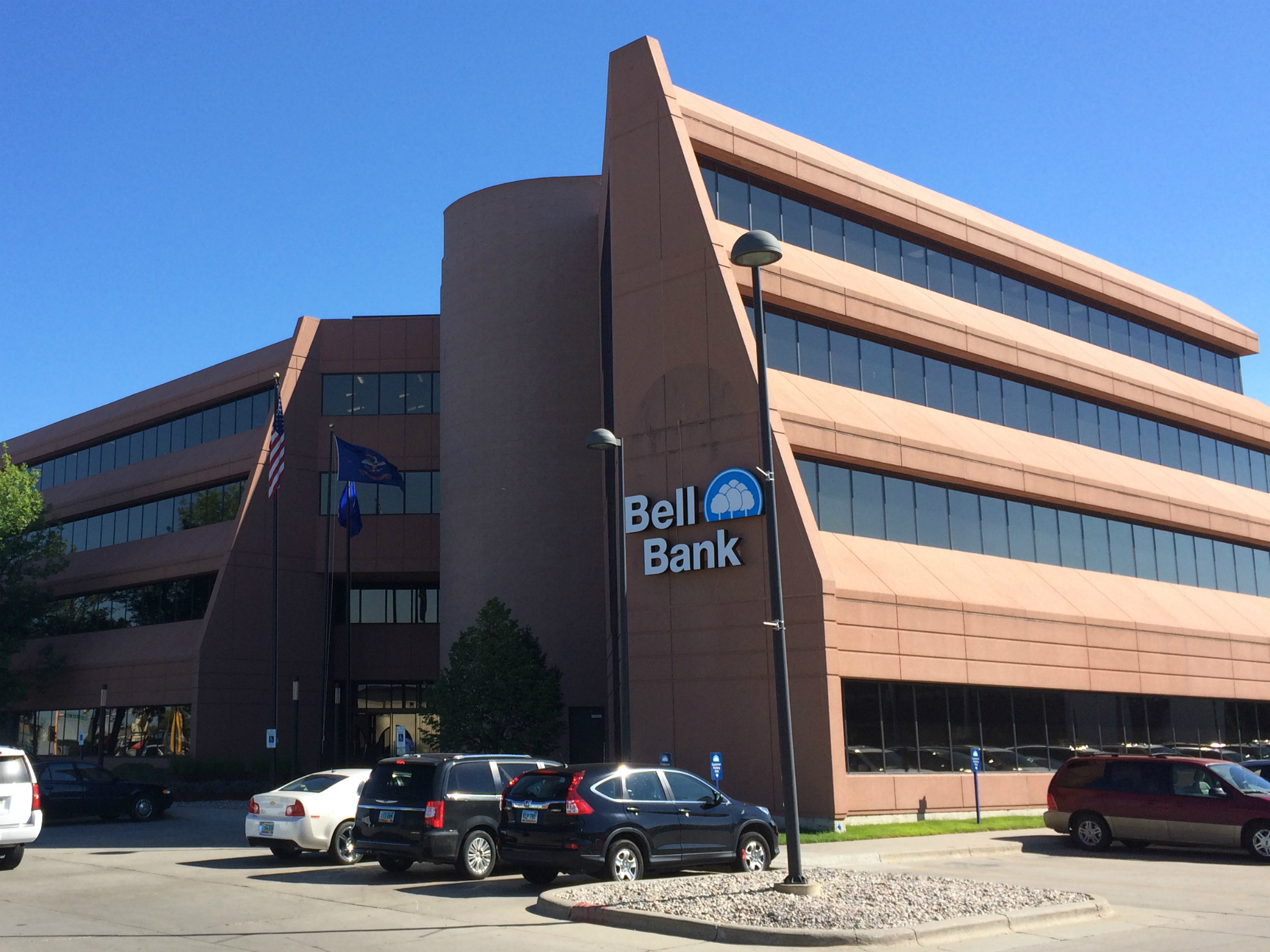 Bell Bank is an independently owned bank based in Fargo, N.D.